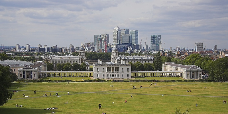 The view of Canary Wharf from the Greenwich Royal Observatory. The view of Canary Wharf from the Greenwich Royal Observatory, London.